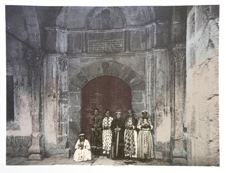 Entrance of the St. Sophia Armenian church in Sis